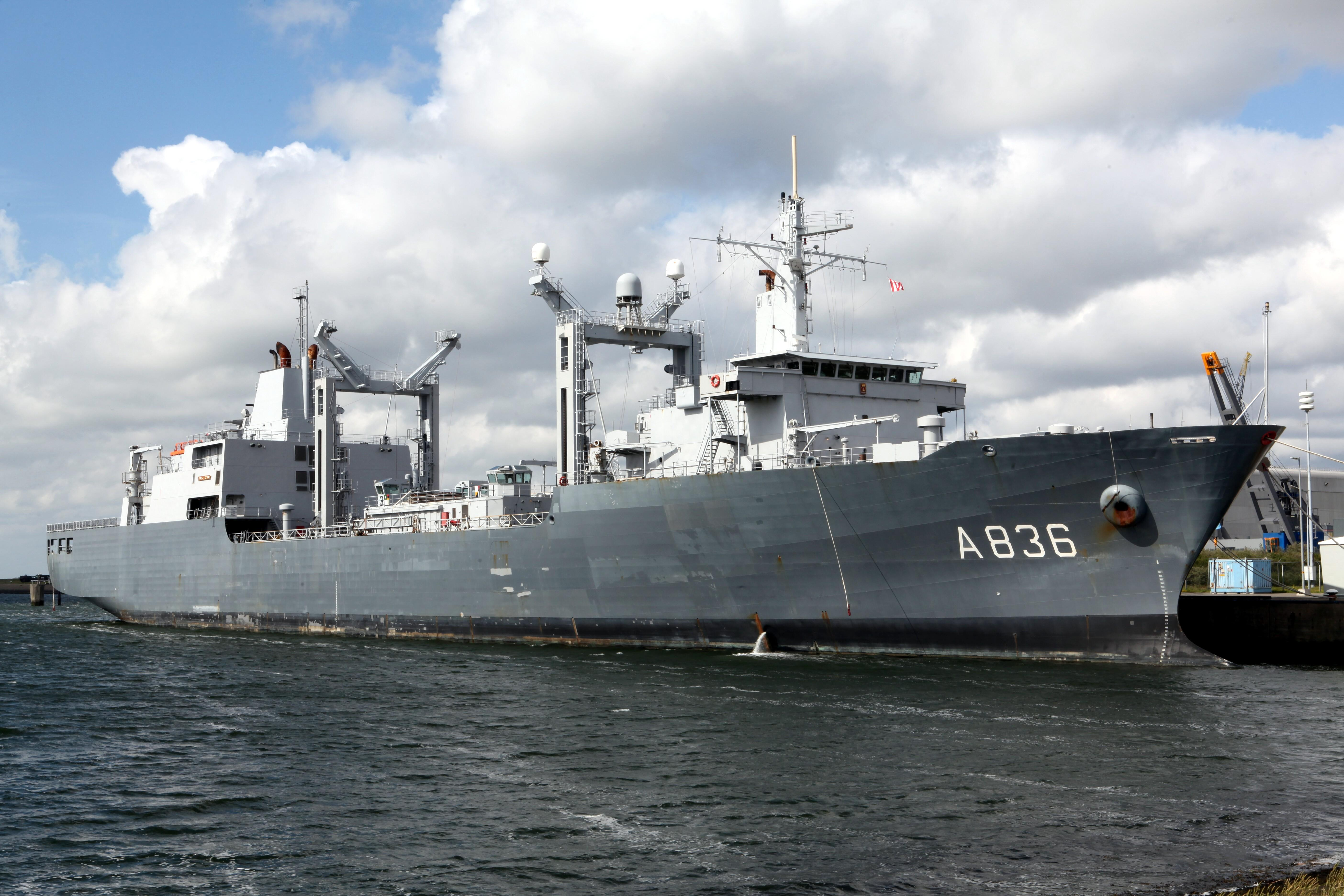 HNLMS Amsterdam (A836) is one of two replenishment ships serving with the Royal Netherlands Navy. The Amsterdam entered service in 1995.